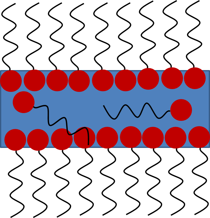 Scheme of a soap film stabilized by surfactants